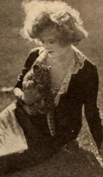 Actress Juanita Hansen with a leopard cub, on page 65 of the December 20, 1919 Exhibitors Herald. At the time she was starring in the animal serial The Lost City (1920).